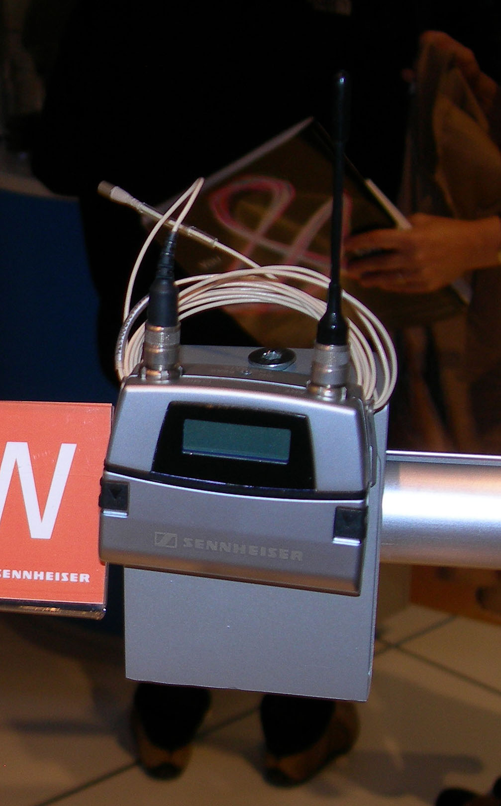 Sennheiser SK 5212 miniature wireless transmitter and MKE 1 lavalier microphone; IBC 2008, Amsterdam